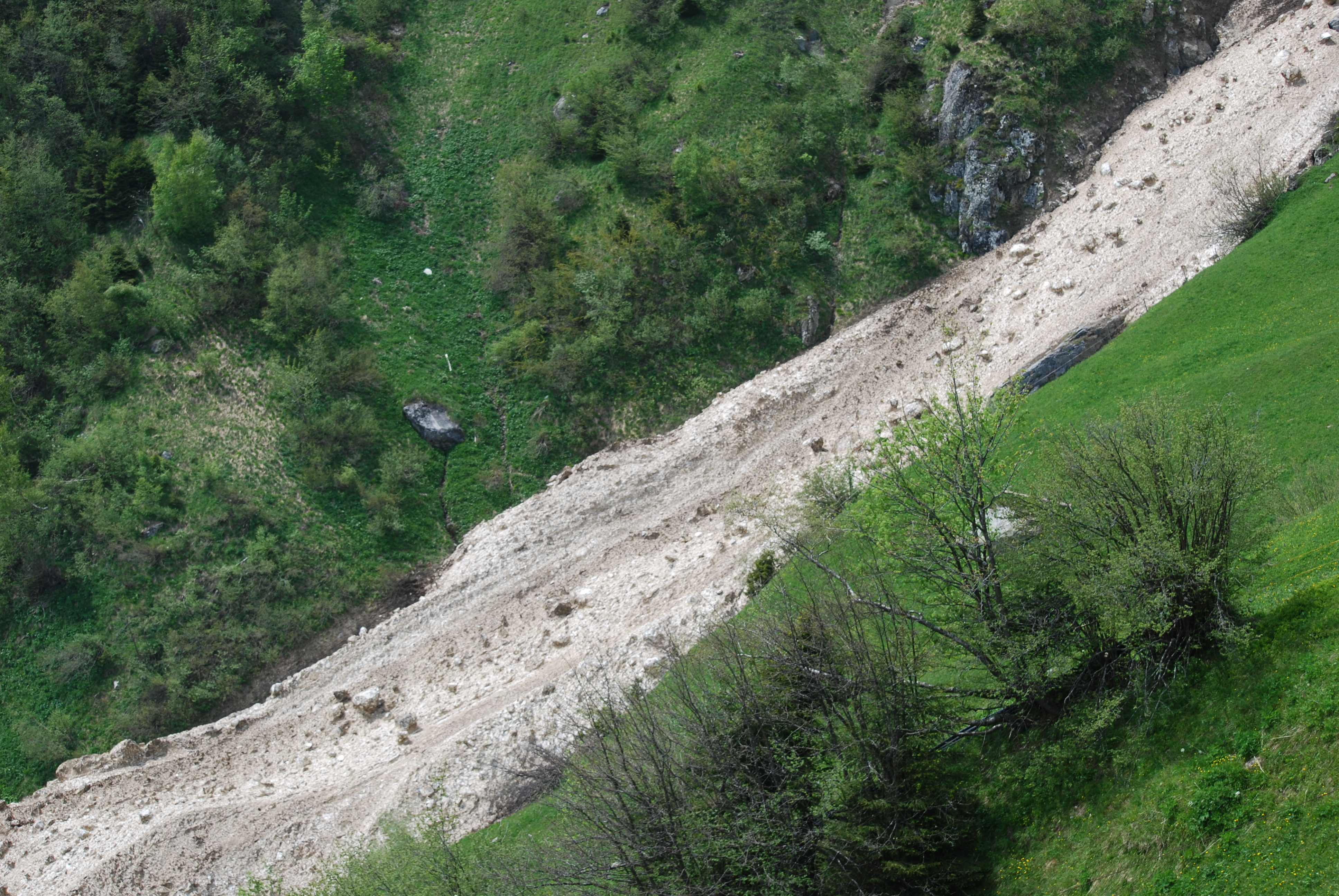 Avalanche in Maderanertal, Canton of Uri, Switzerland